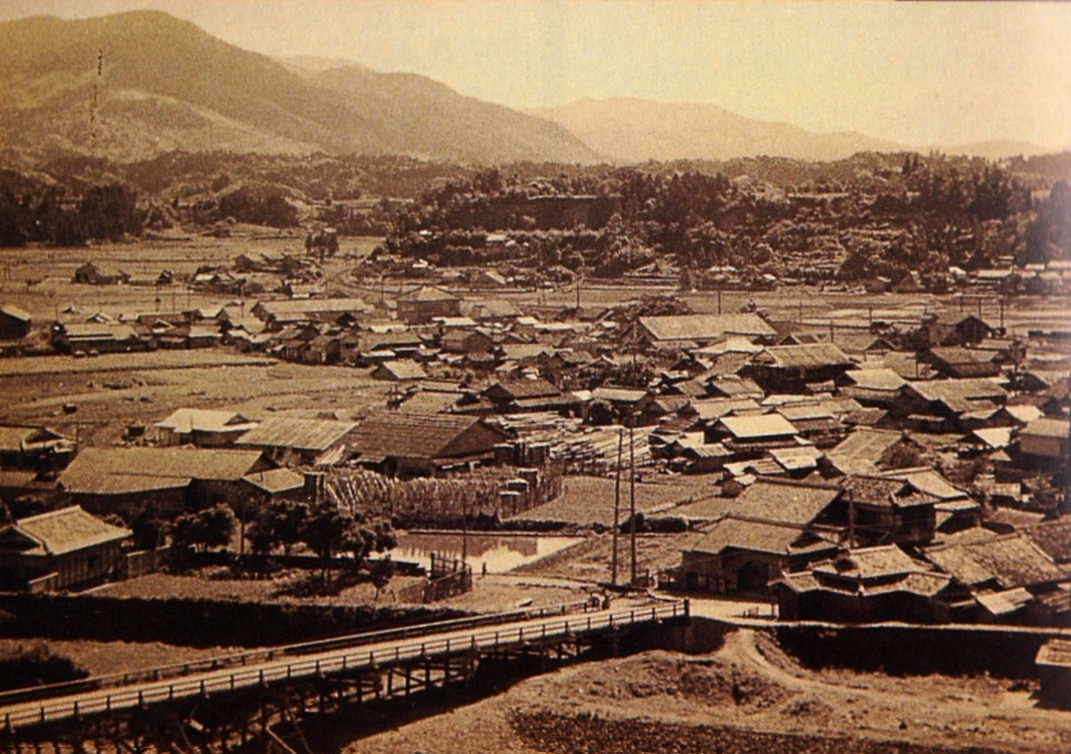 Nishi-Shinmachi, Kiyotake Town, Miyazaki City, Japan in 1950.)